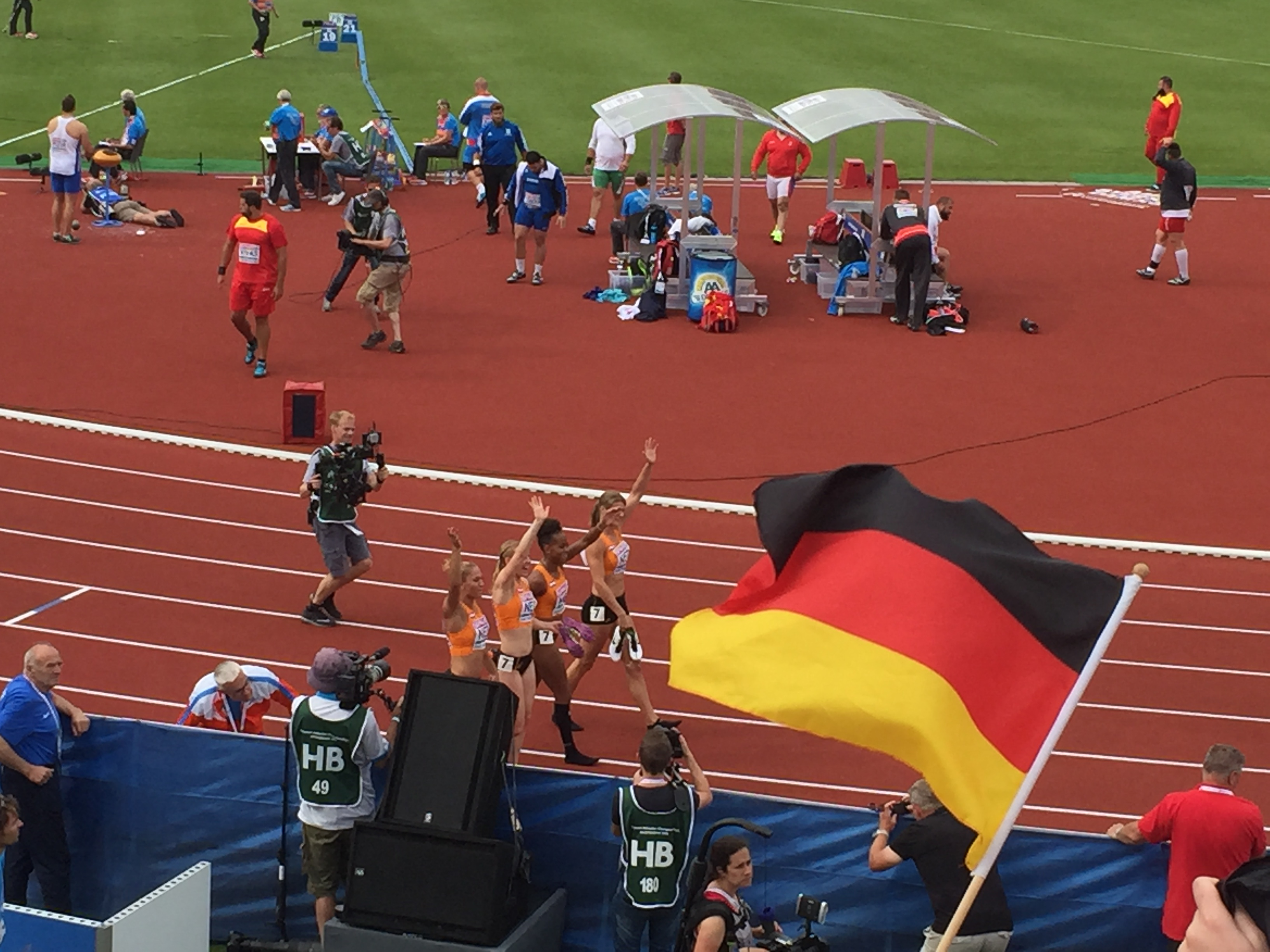 European Athletic Championships 2016 in Amsterdam - 10 July 2016 European Championships in Athletics (10 August) Schedule for this day: Finals: 17:00 High Jump M 17:05 400m Hurdles W 17:10 Hammer Throw M 17:15 3000m Steeplechase W 17:25 Triple Jump W 17:30 Shot Put M 17:35 4 x 100m W 17:45 1500m W 17:55 4 x 100m M 18:10 5000m M 18:30 800m M 18:40 4 x 400m W 18:50 4 x 400m M